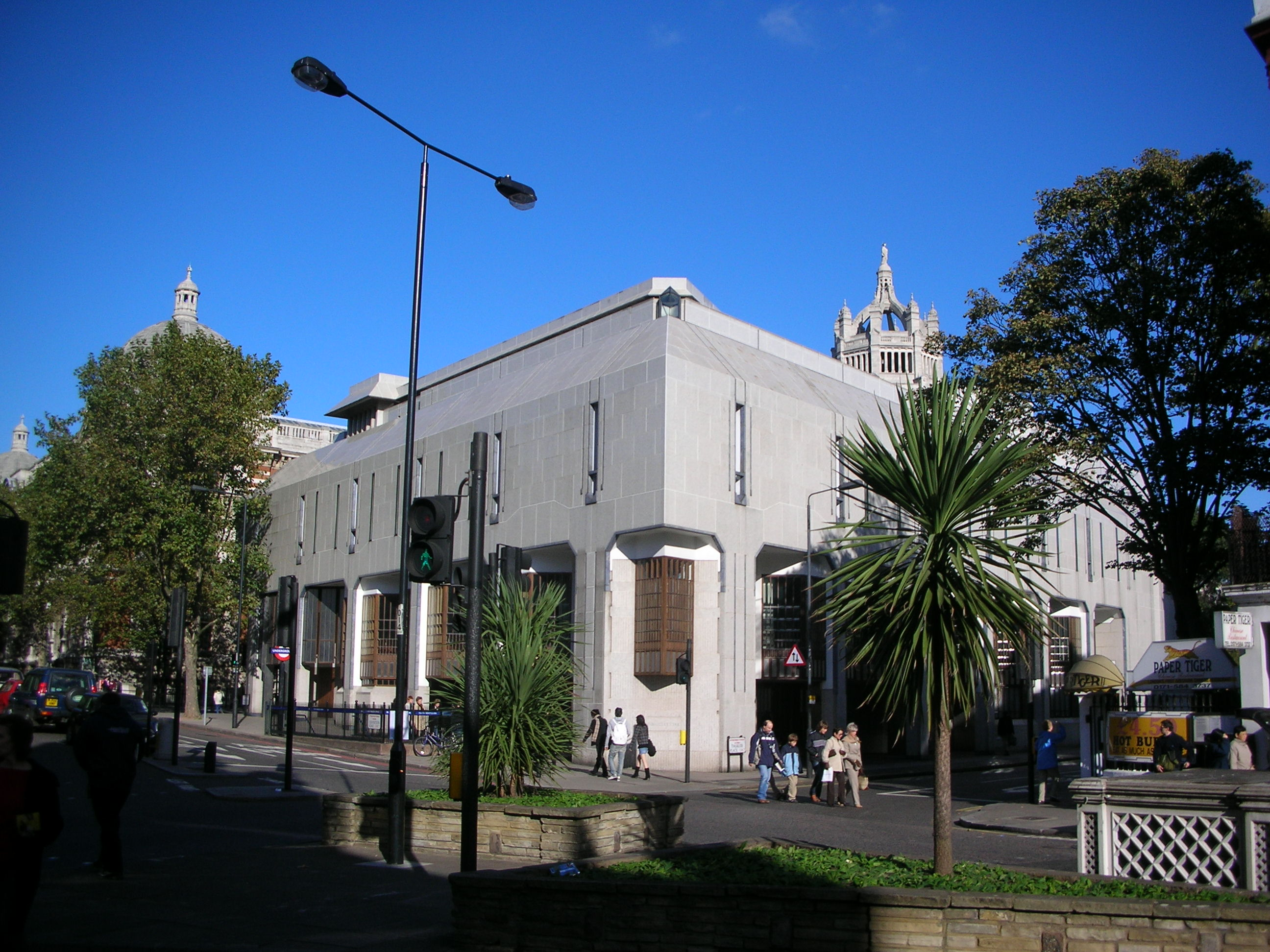 Ismaili Centre, London, England. Photograph by Jonathan Bowen.